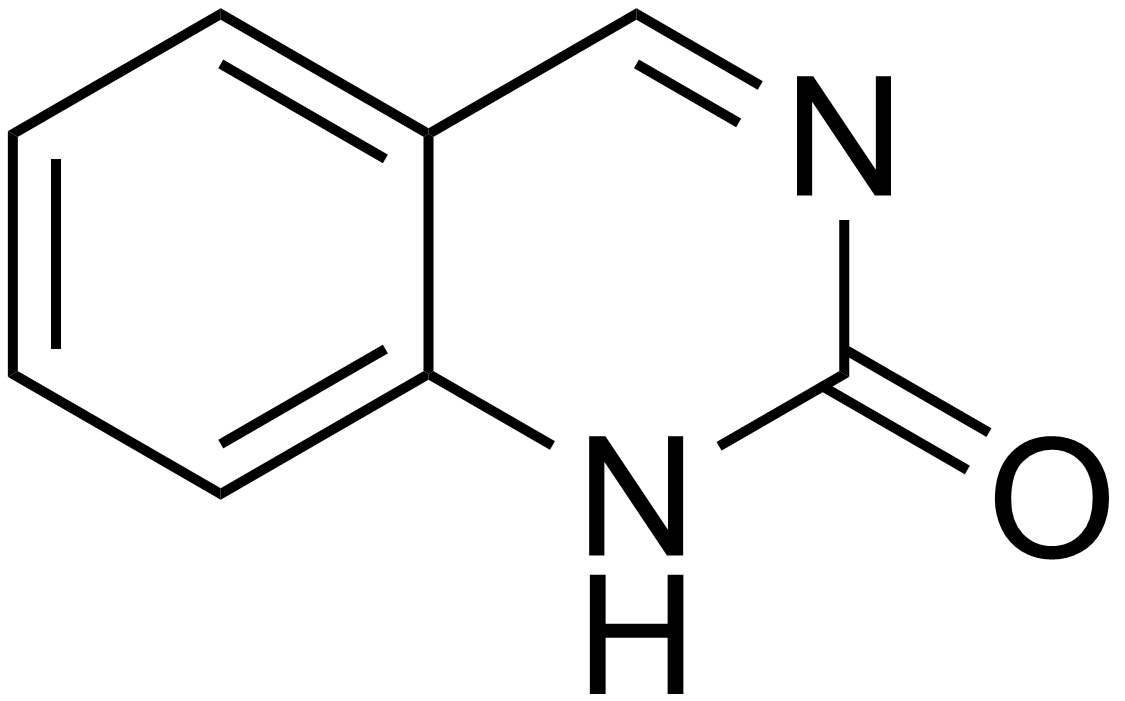 Chemical structure of 2-quinazolinone